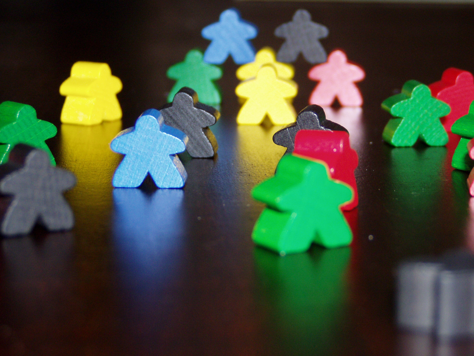 Carcassonne meeples, or followers